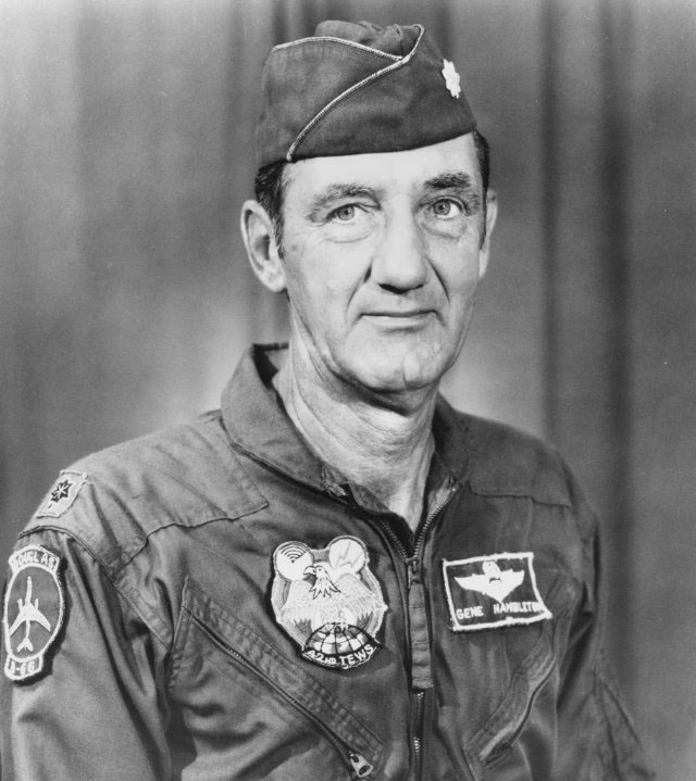 Lt. Col. Icheal "Gene" Hambleton (Bat 21 Bravo), who was shot down on April 2, 1972 and evaded capture for 11 1/2 days behind enemy lines during the Vietnam War. He was finally rescued by Navy SEAL Thomas R. Norris and ARVN Petty Officer Third Class Nguyen Van Kiet. During the rescue operation, four aircraft were shot down resulting in the deaths of 11-15 airmen and the capture of two more.